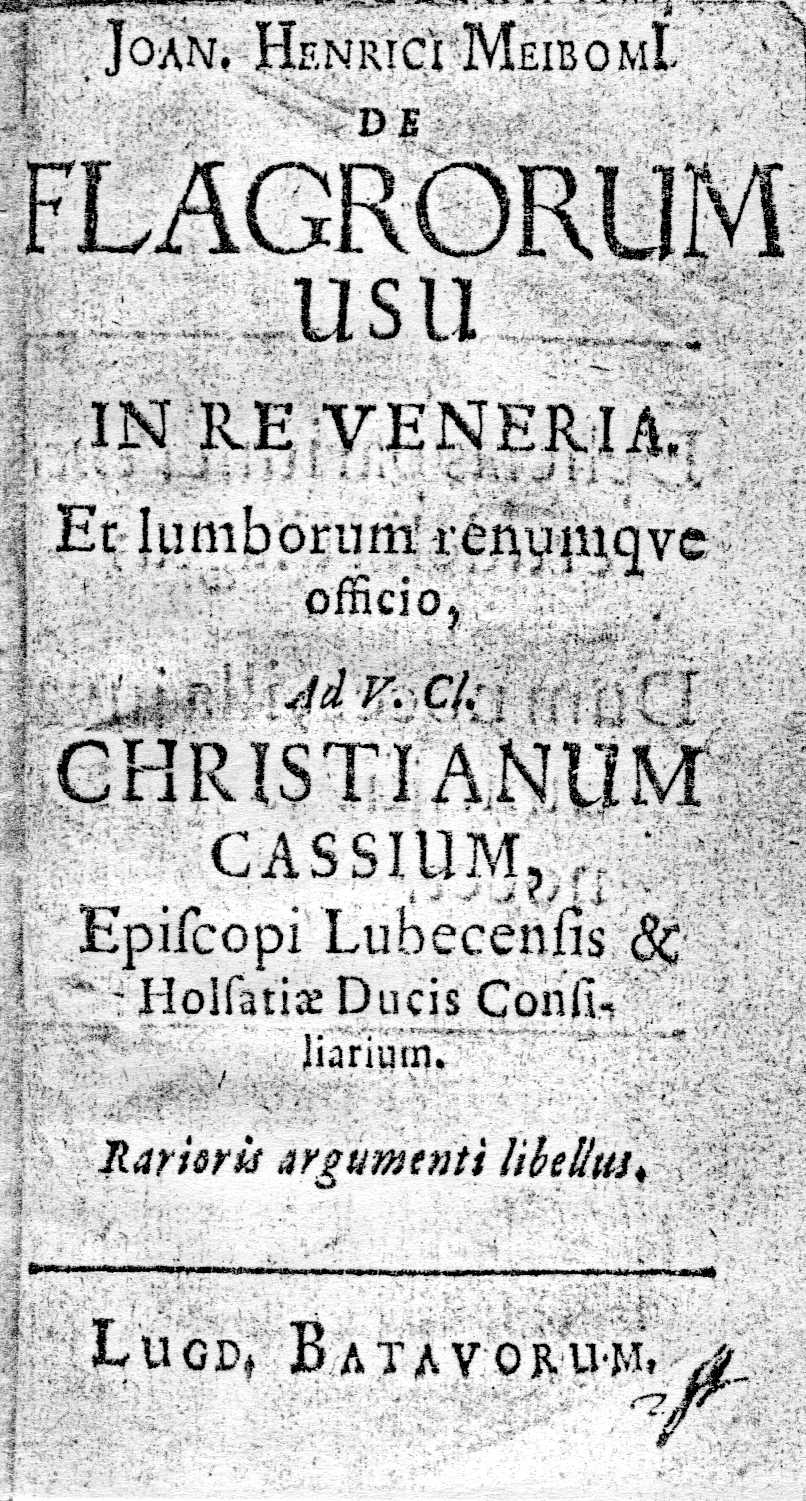 Title page of J. H. Meibom, "De flagrorum usu", a Leiden edition, 1643?